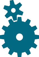 Marine IMDO Service Sector Symbol